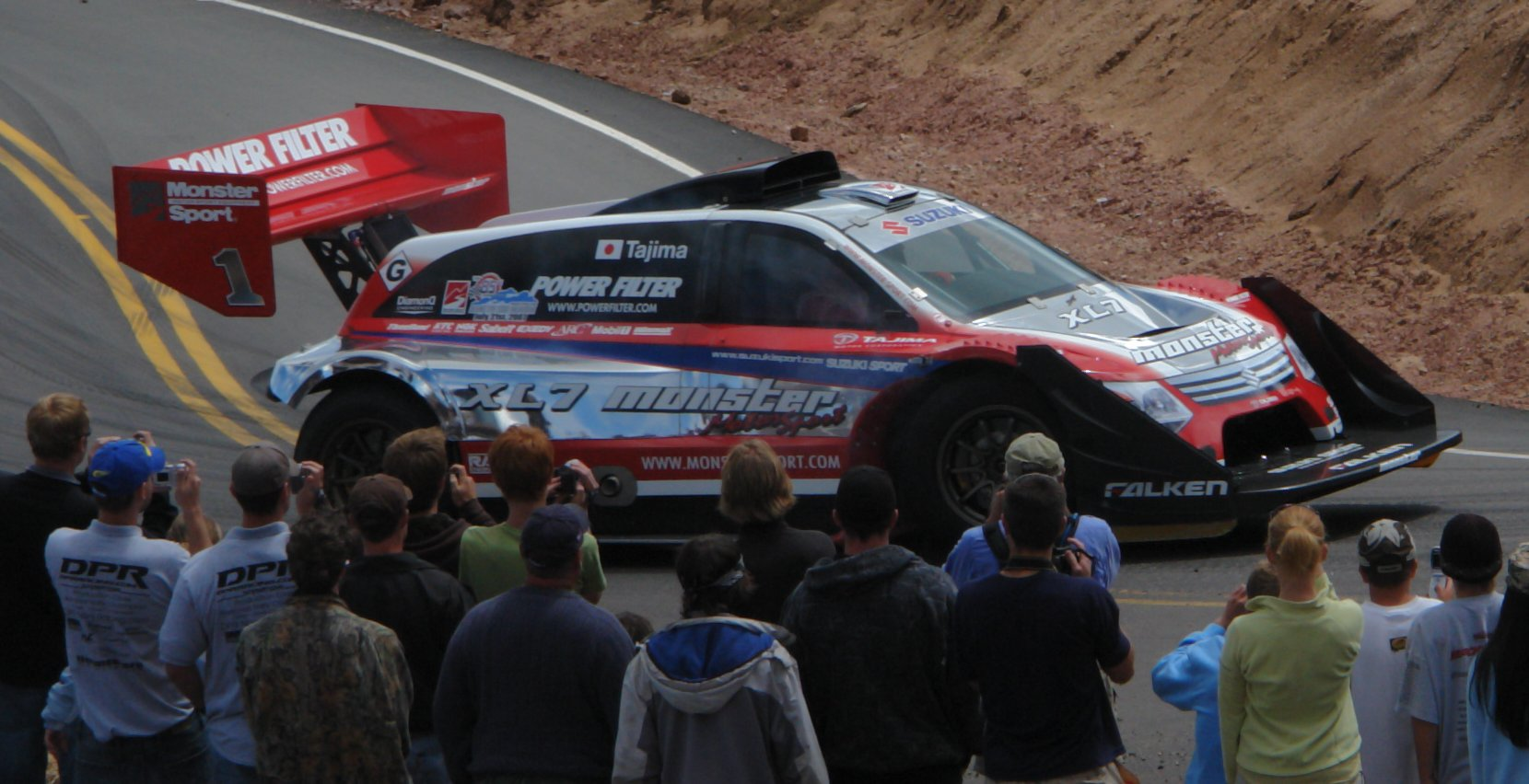 Nobuhiro Tajima's 2007 run of 10:01.408 to the top. He was in a Suzuki XL7 Hill Climb Special while racing the Unlimited category